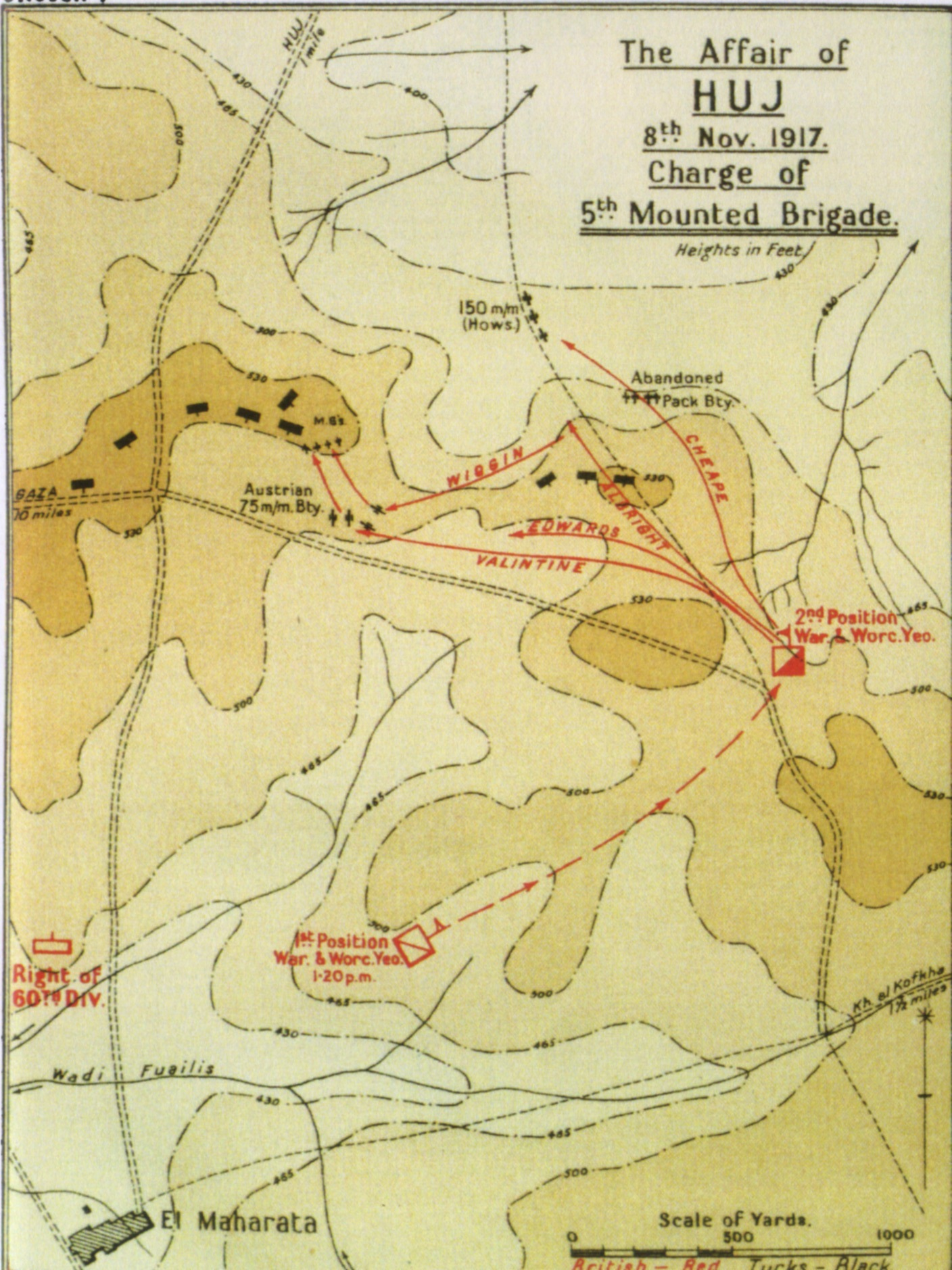 Falls sketch map 7 of charge at Huj Other information Government publication - official history